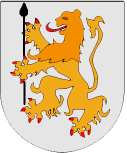 Coat of arms of Ronchi's family